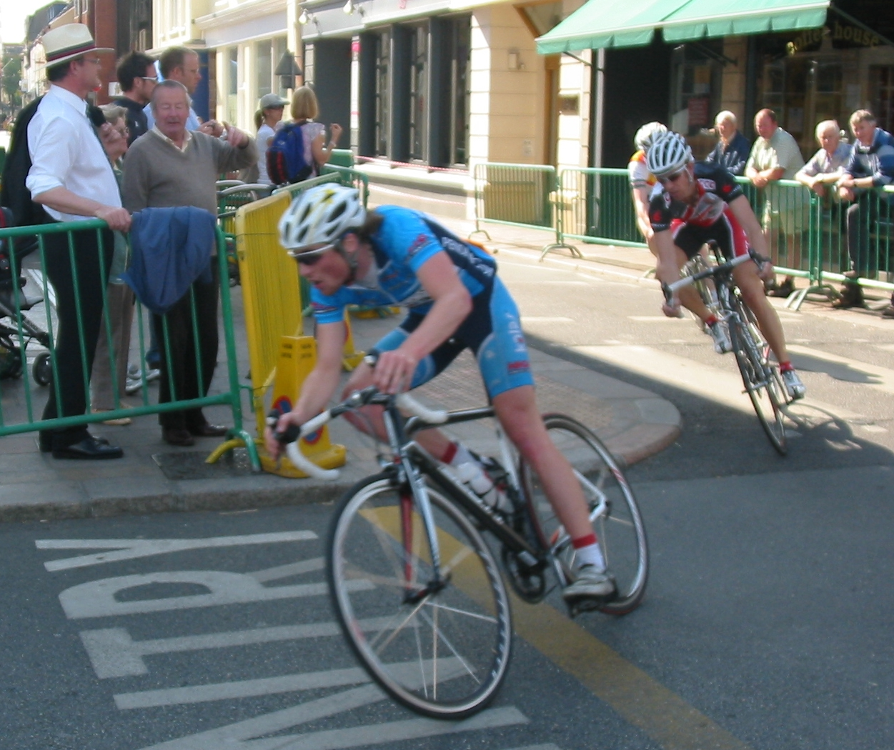 Jersey Town Criterium bicycle races, Saint Helier, Jersey, 24 May 2009